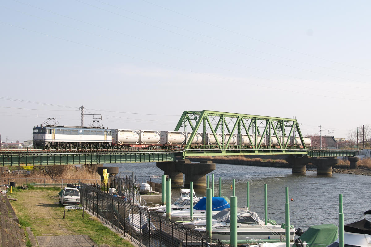 JR East Sobu line (Shinkin freight line) and Shin-Naka river.